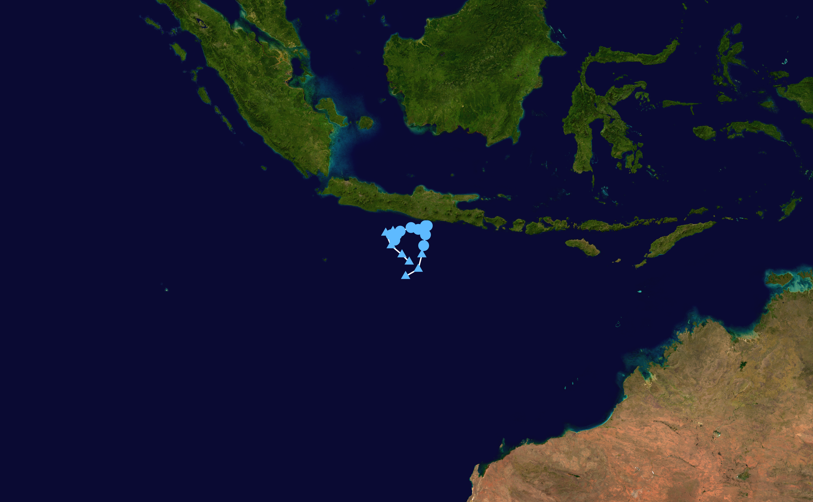 Track map of Tropical Cyclone Cempaka of the 2017-18 Australian region cyclone season. The points show the location of the storm at 6-hour intervals. The colour represents the storm's maximum sustained wind speeds as classified in the Saffir–Simpson scale (see below), and the shape of the data points represent the nature of the storm, according to the legend below. Saffir–Simpson scale Tropical depression≤38 mph≤62 km/h Category 3111–129 mph178–208 km/h Tropical storm39–73 mph63–118 km/h Category 4130–156 mph209–251 km/h Category 174–95 mph119–153 km/h Category 5≥157 mph≥252 km/h Category 296–110 mph154–177 km/h Unknown Storm typeTropical cycloneSubtropical cycloneExtratropical cyclone / Remnant low / Tropical disturbance